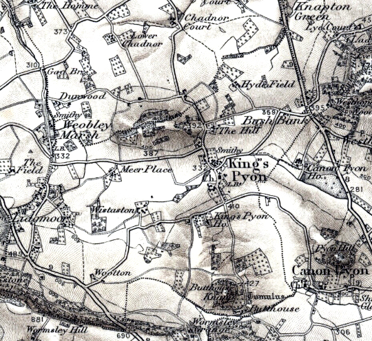 1898 Ordnance Survey map of King's Pyon, Herefordshire, England in OS Map Sheet 198 - Hereford (Hills). Reproduced with the permission of the National Library of Scotland.[1]